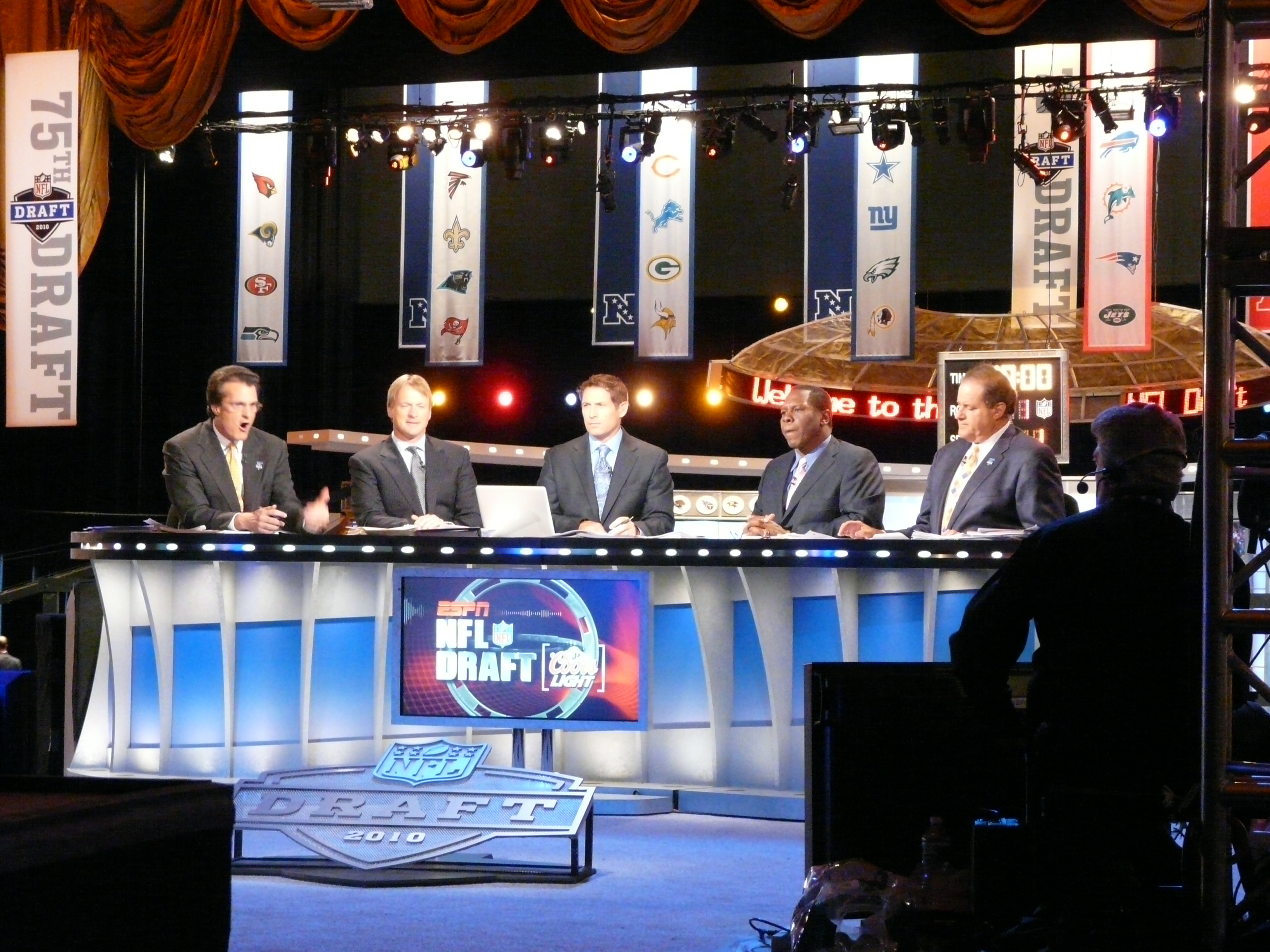 From left to right, Mel Kiper Jr., Jon Gruden, Steve Young, Tom jackson, and Chris Berman